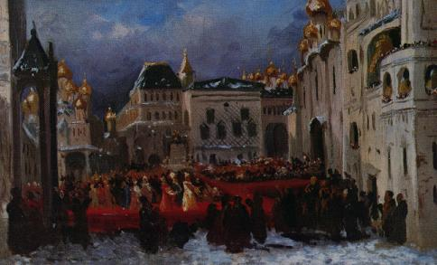 Bocharov design for Cathedral Square scene in Boris Godunov (1874)